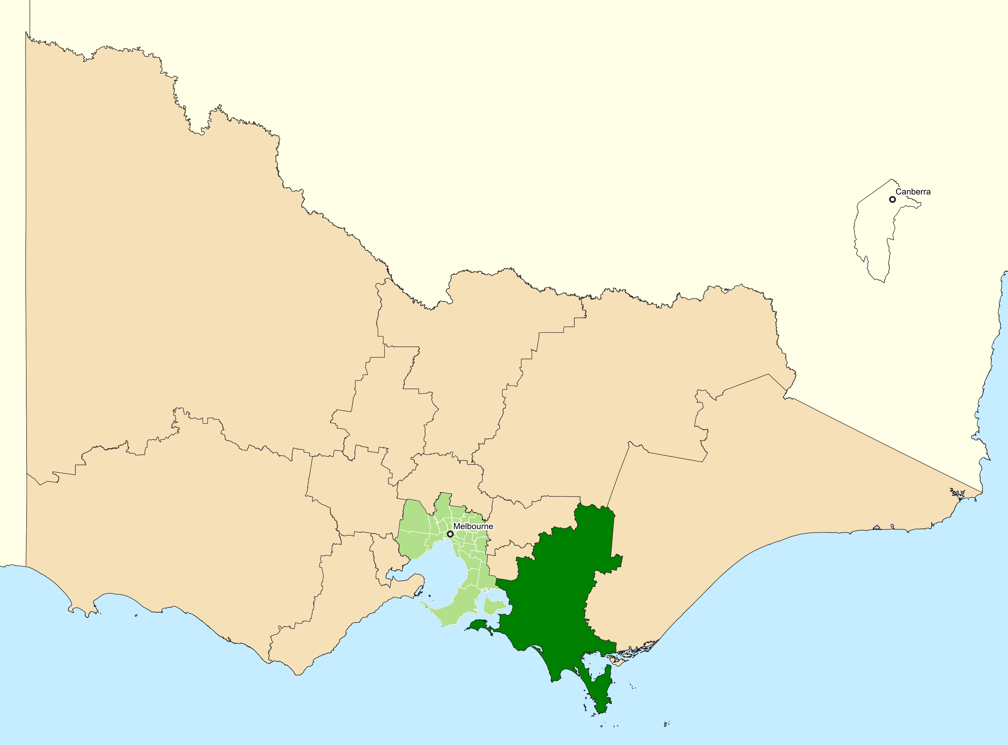 Location of the Australian federal electoral division of Monash (dark green) in Greater Melbourne, Victoria as of the 2019 Australian federal election. Incorporates or developed using Administrative Boundaries ©PSMA Australia Limited licensed by the Commonwealth of Australia under Creative Commons Attribution 4.0 International licence (CC BY 4.0).